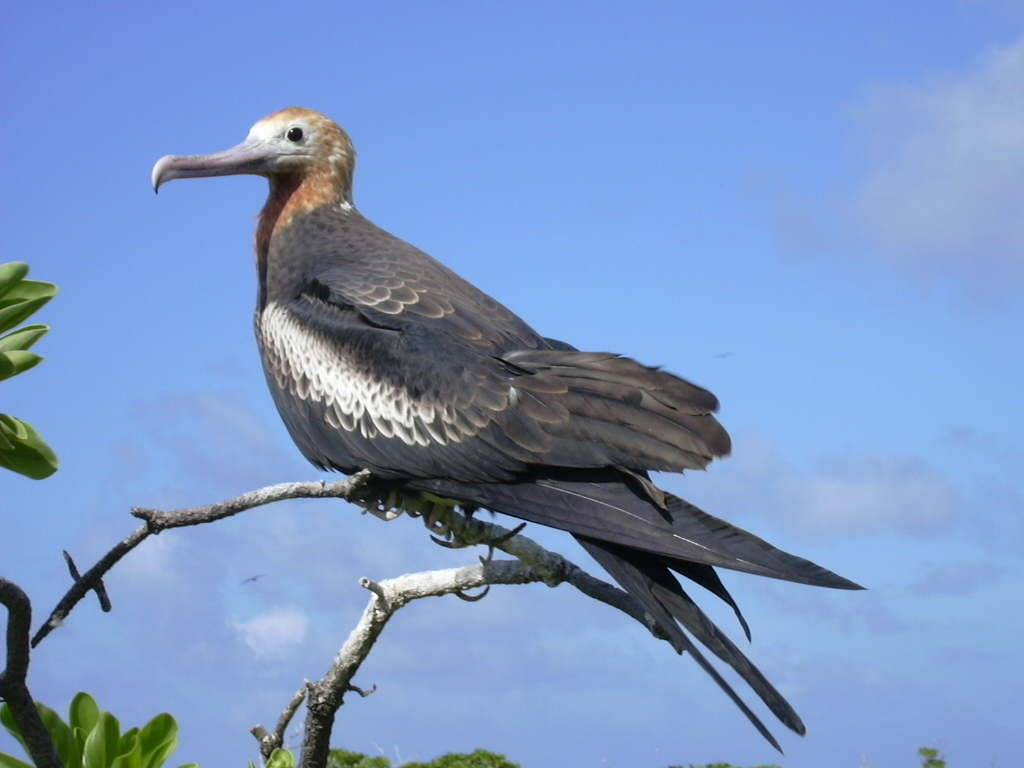 Female Frigatebird on Sibylla Island, Taongi Atoll, RMI.